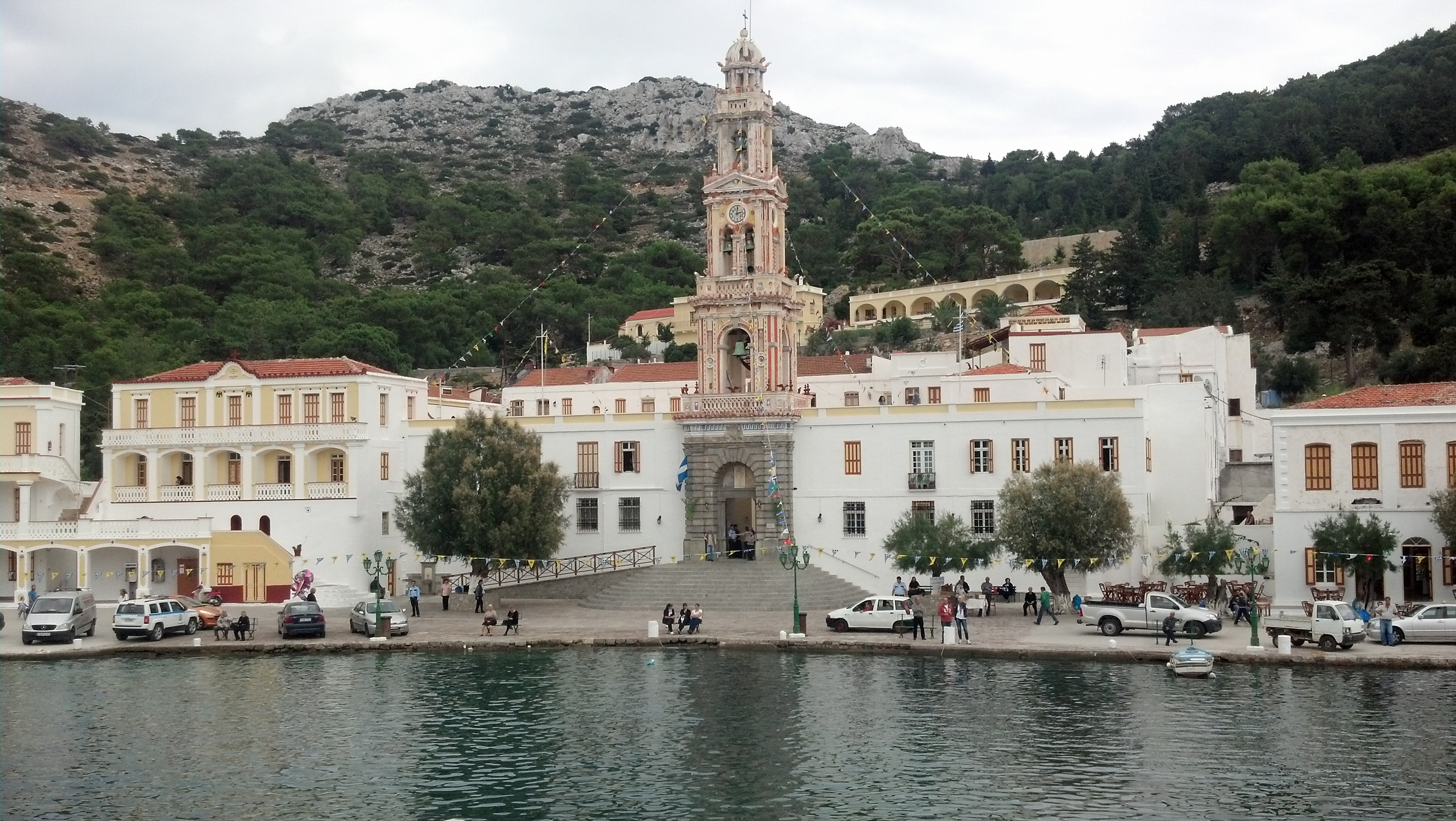 Panormitis, Simi island, Greece